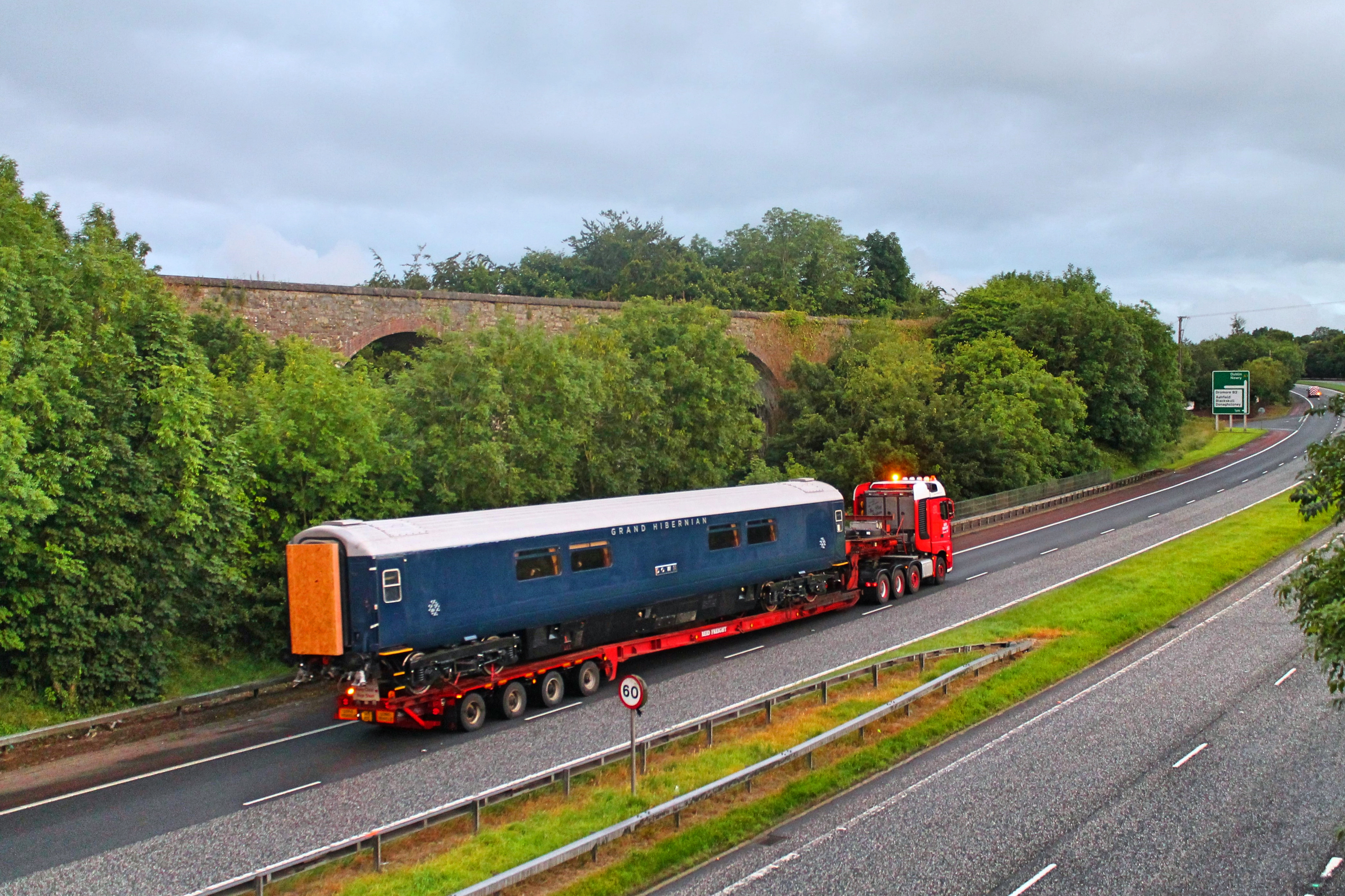 Belmond MkIII Down passing the abandoned railway viaduct at Dromore. The coach was being transferred from Mivan Workshops in Antrim to North Wall yard in Dublin.